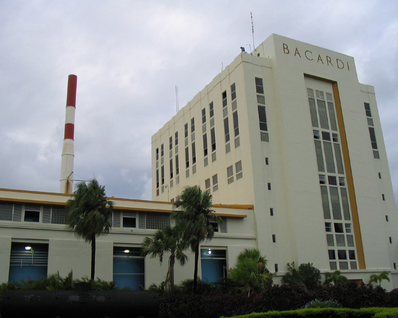 "Cathedral of Rum"